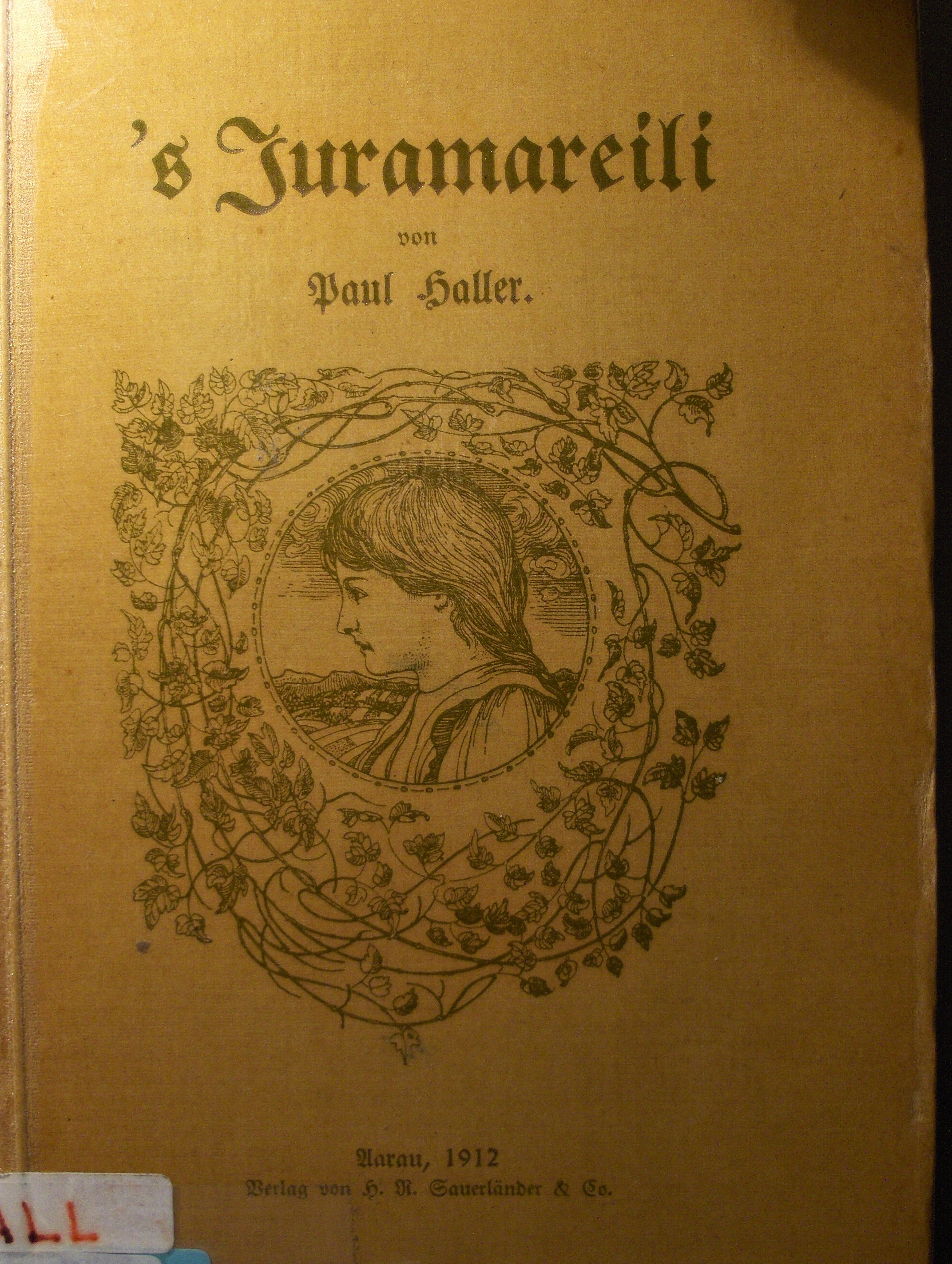 This is a scan of the historical document